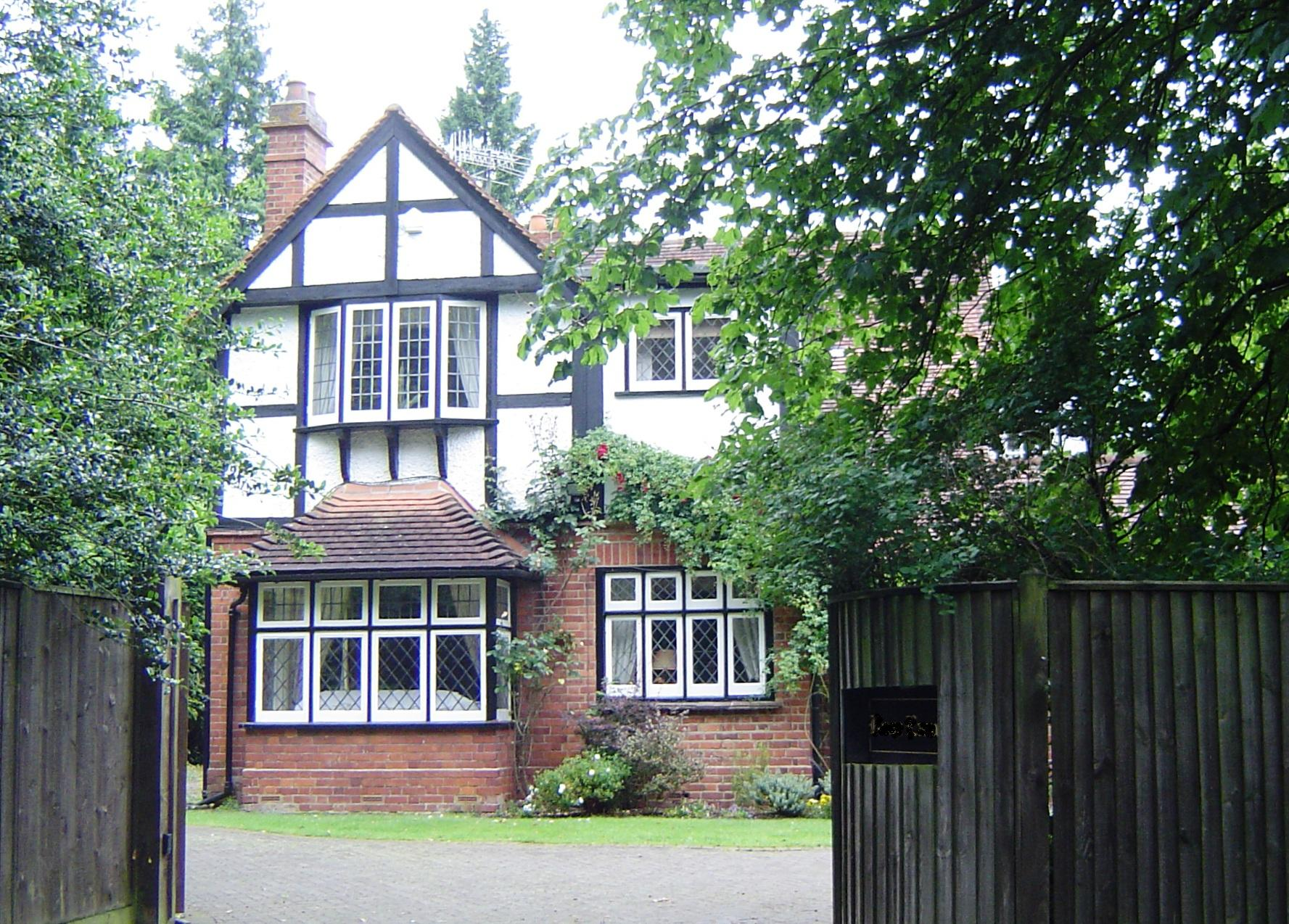 Home of the Blair family at Shiplake near Henley